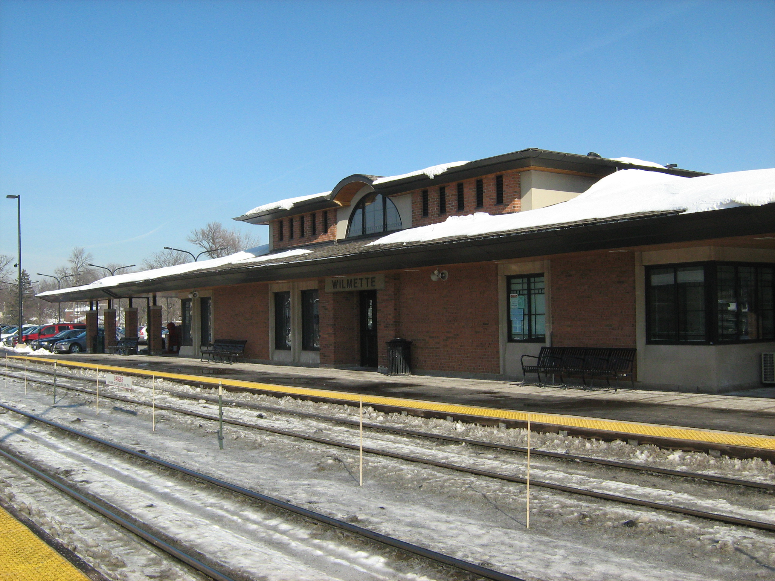 722 Green Bay Rd Wilmette, IL 60091 (847) 256-0400 Metra Union Pacific North Line Zone C